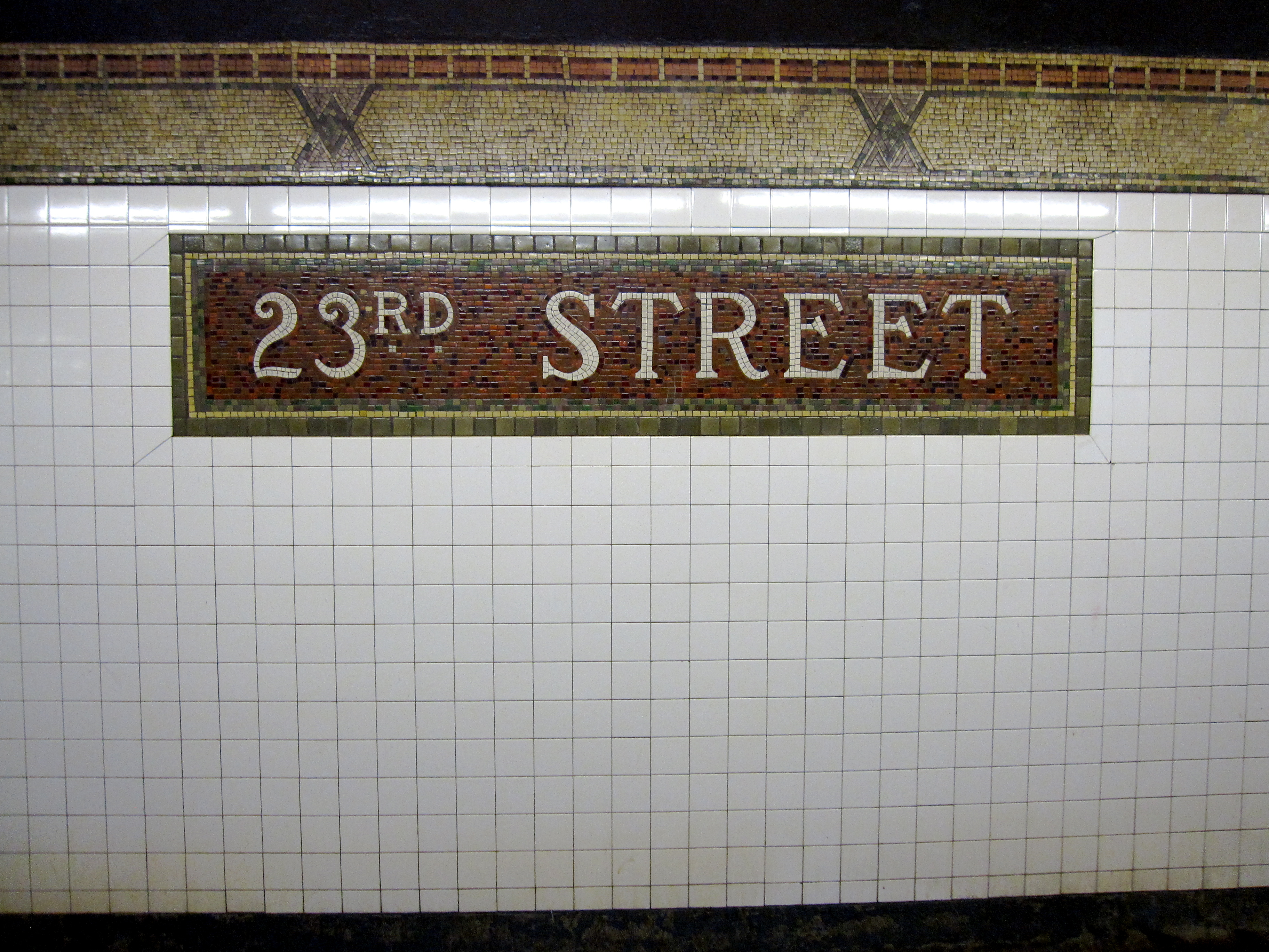 23rd Street IRT Broadway–Seventh Avenue